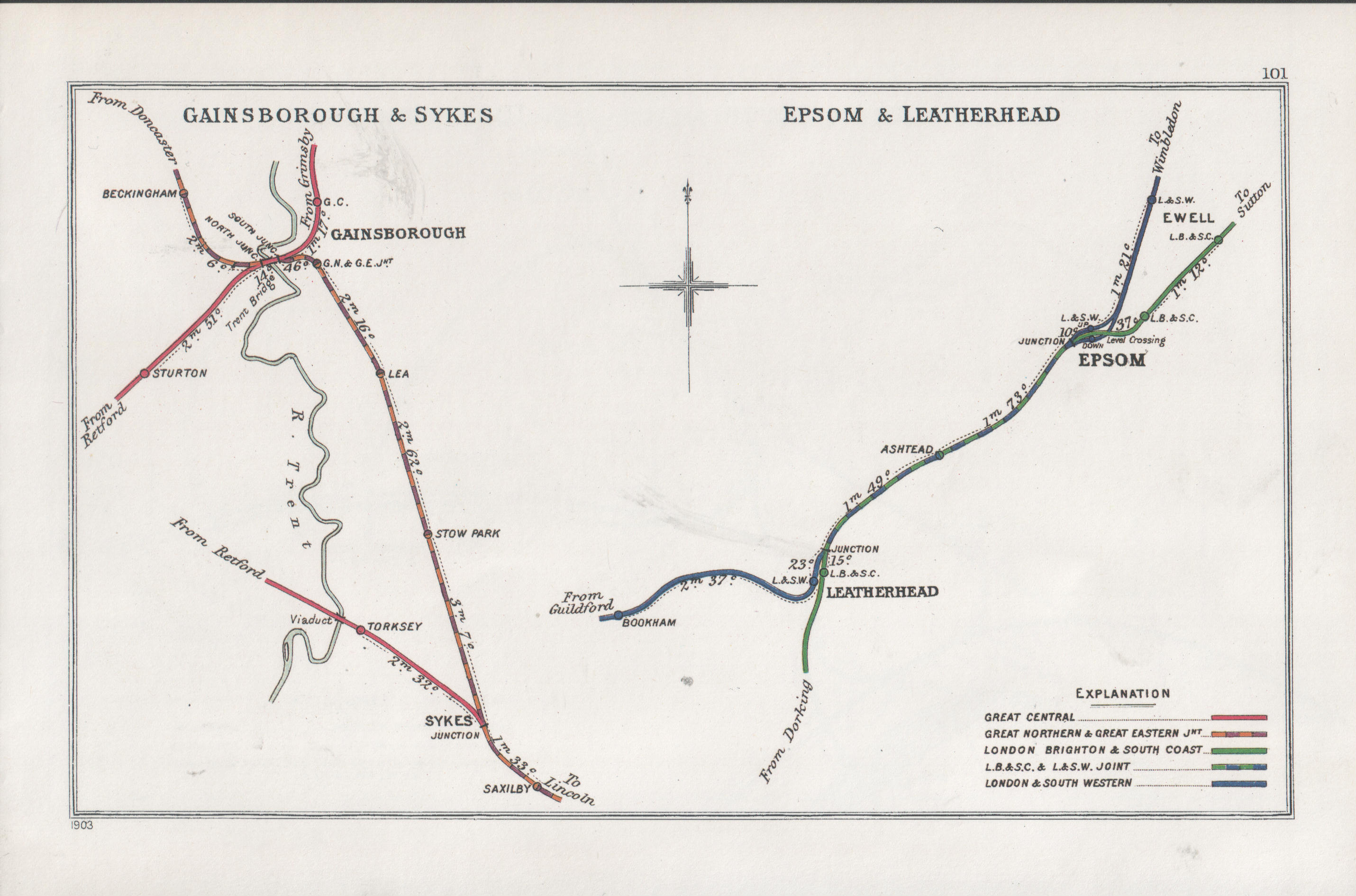 Pre Grouping railway junction around Gainsborough & Sykes; Epsom & Leatherhead